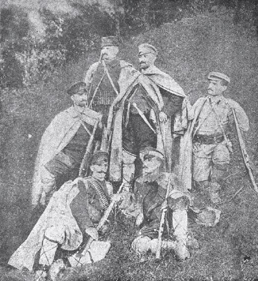 Officers of SMAC band of Yordan Stoyanov